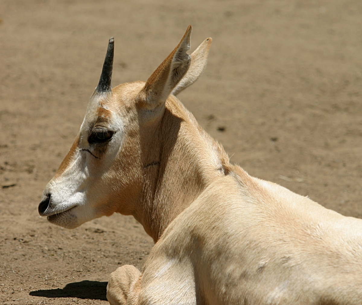 A Scimitar Oryx at the San Diego Zoo in San Diego, California, USA.